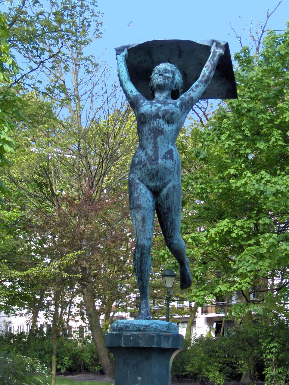 De Wind, bronze statue (1933) by Emile Bulcke (1875-1963); Leopoldpark, Ostend, Belgium